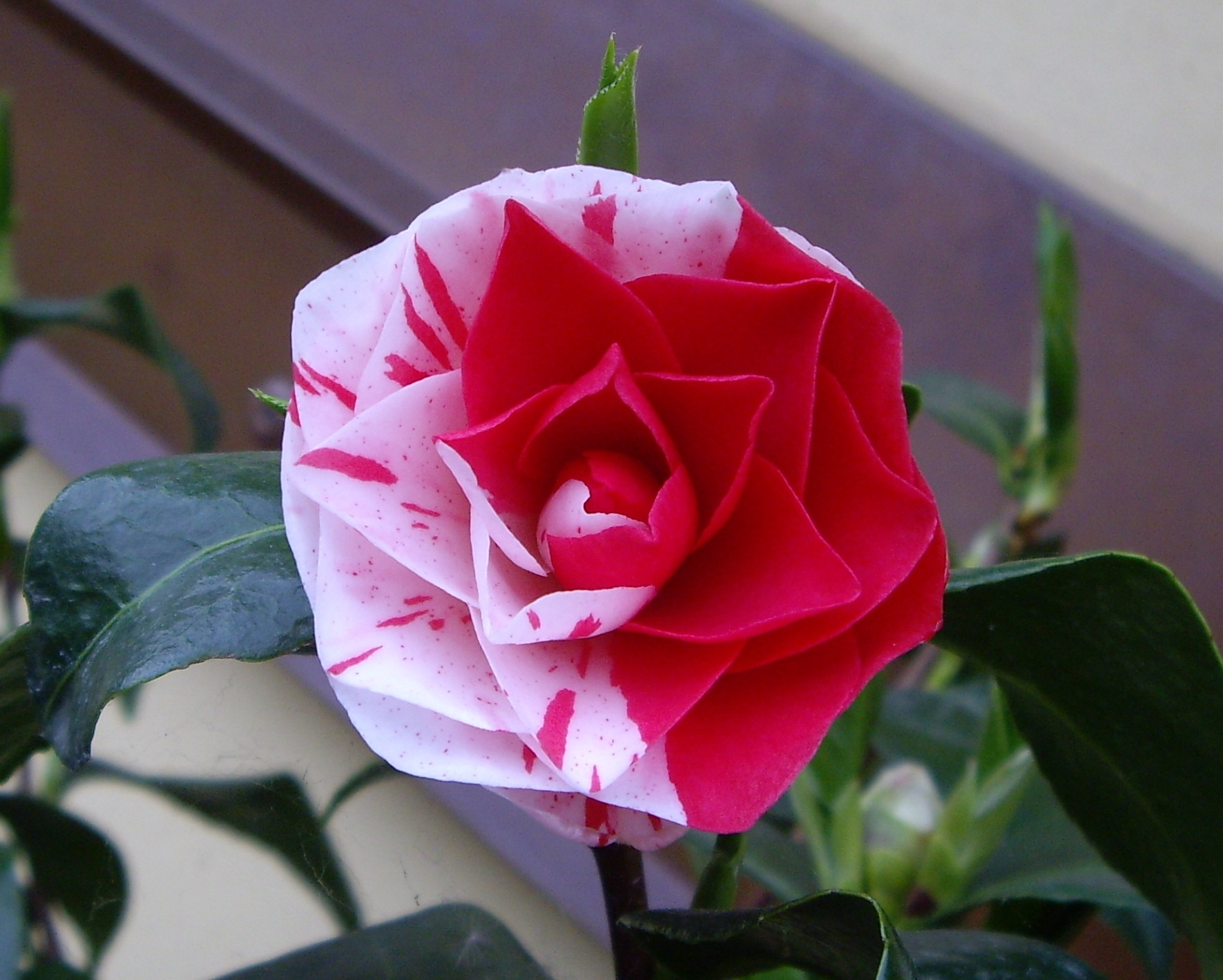 Camellia japonica 'Lavinia Maggi' (synonym: Camellia japonica 'Contessa Lavinia Maggi'